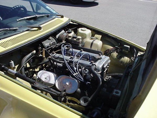 Engine bay of a Alfa Romeo Alfetta